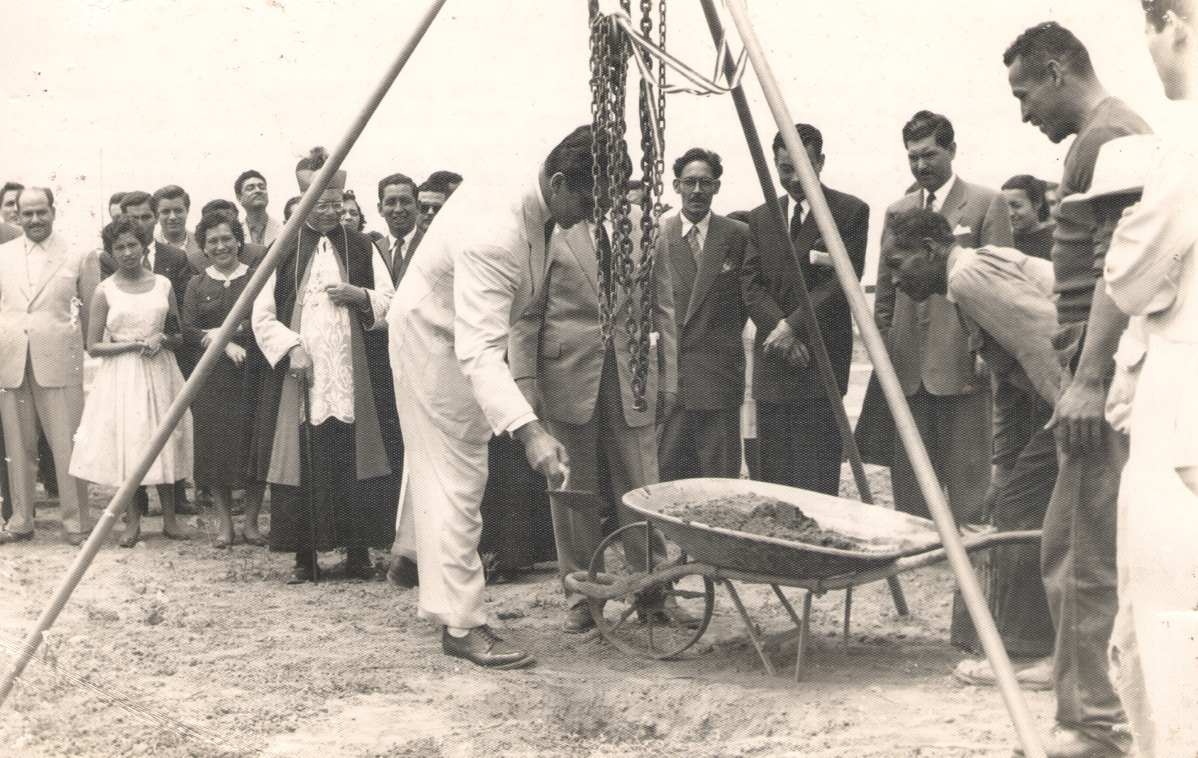 Durante el gobierno militar de Velasco Alvarado no solo le expropió a Guillermo Ganoza la fábrica de jugos Liber y el banco Nor Perú, sino también gran parte de extensiones de terrenos que había adquirido como herencia de sus padres. Antes que lo despojen de todas sus tierras, decide desarrollar su ciudad, creando urbanizaciones que hoy perduran en el tiempo, tales como California (la primera urbanización residencial en Trujillo), Santa Edelmira, Primavera, Santa Leonor (Urbanización Industrial), Palmeras del Golf y El Golf.